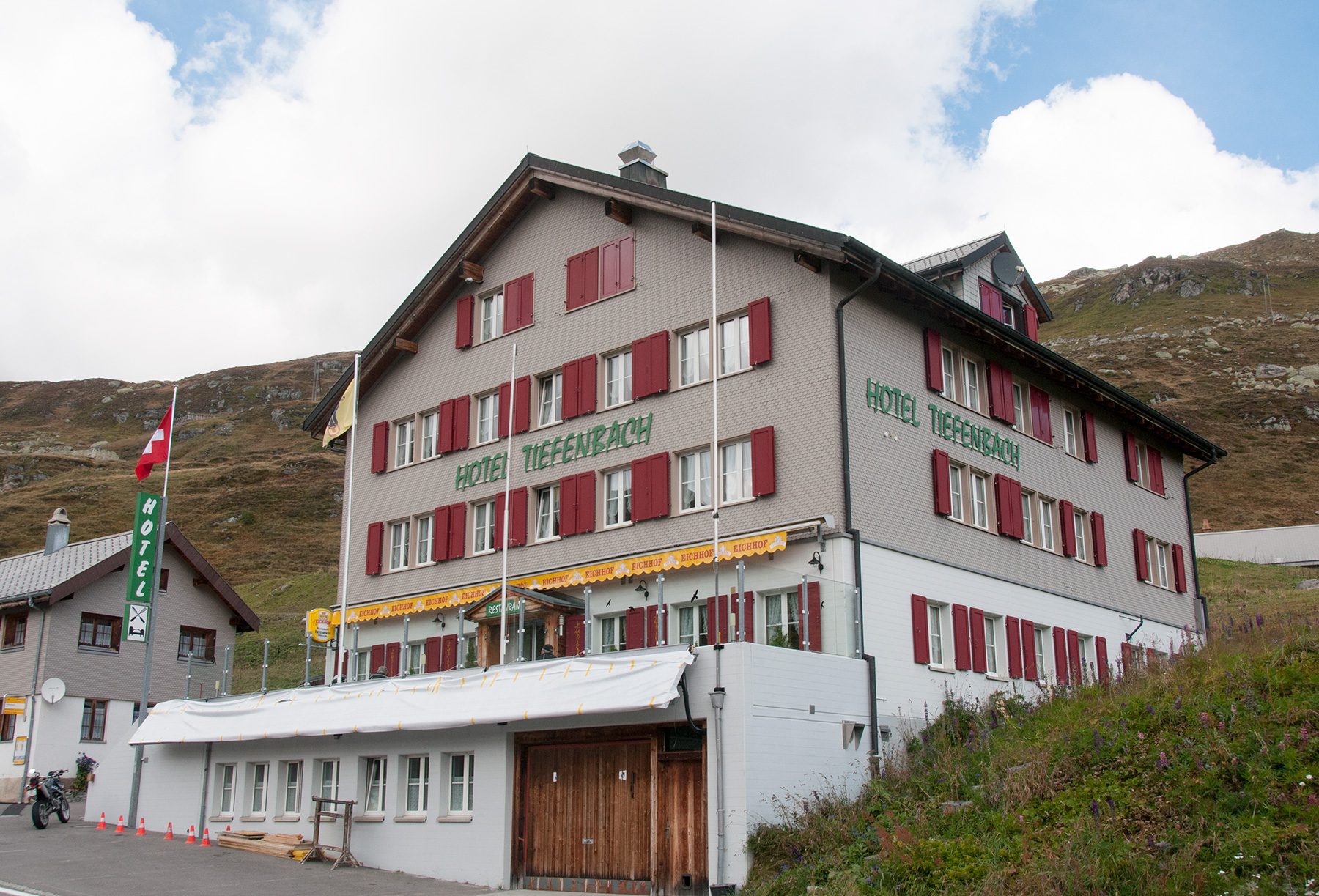 Schirmhaus, East side